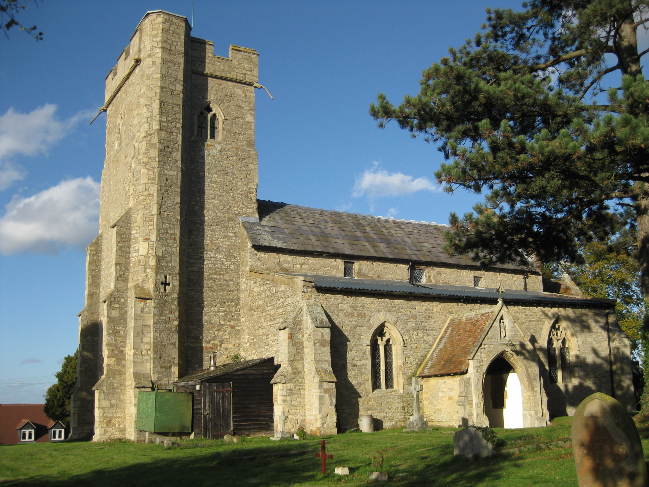 Church of England parish church of the Assumption of the Blesséd Virgin Mary, Moulsoe, Buckinghamshire